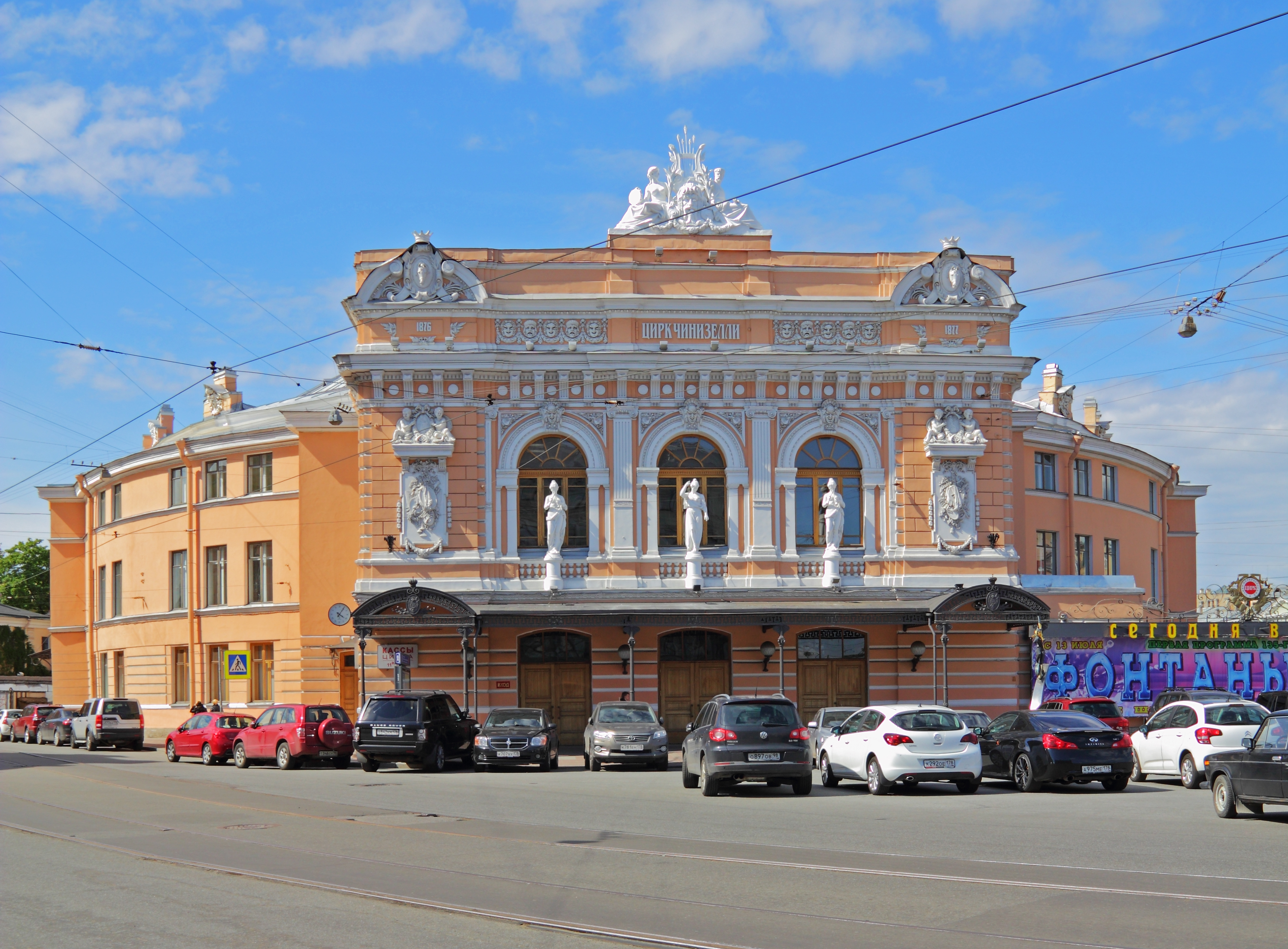 Saint Petersburg, Russia. Grand Circus building at Fontanka